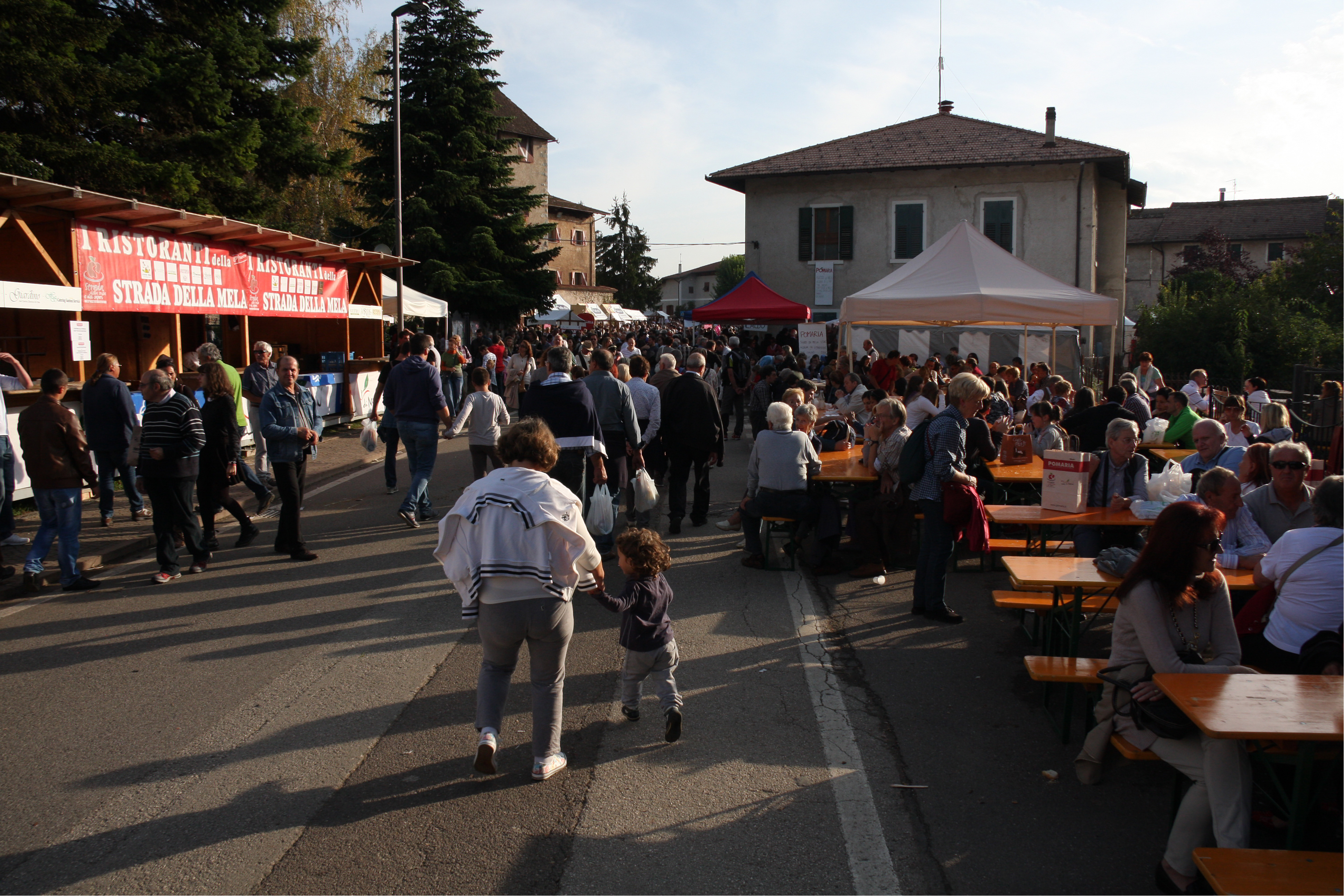 Main street of Casez (municipality Sanzeno (TN), Italy) during the 2014 Pomaria festival